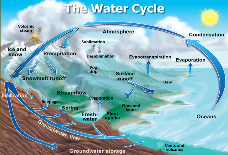 Water-Cycle Diagram (English)